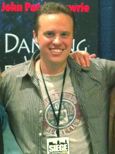 Chris Pope as seen at Siege 2011